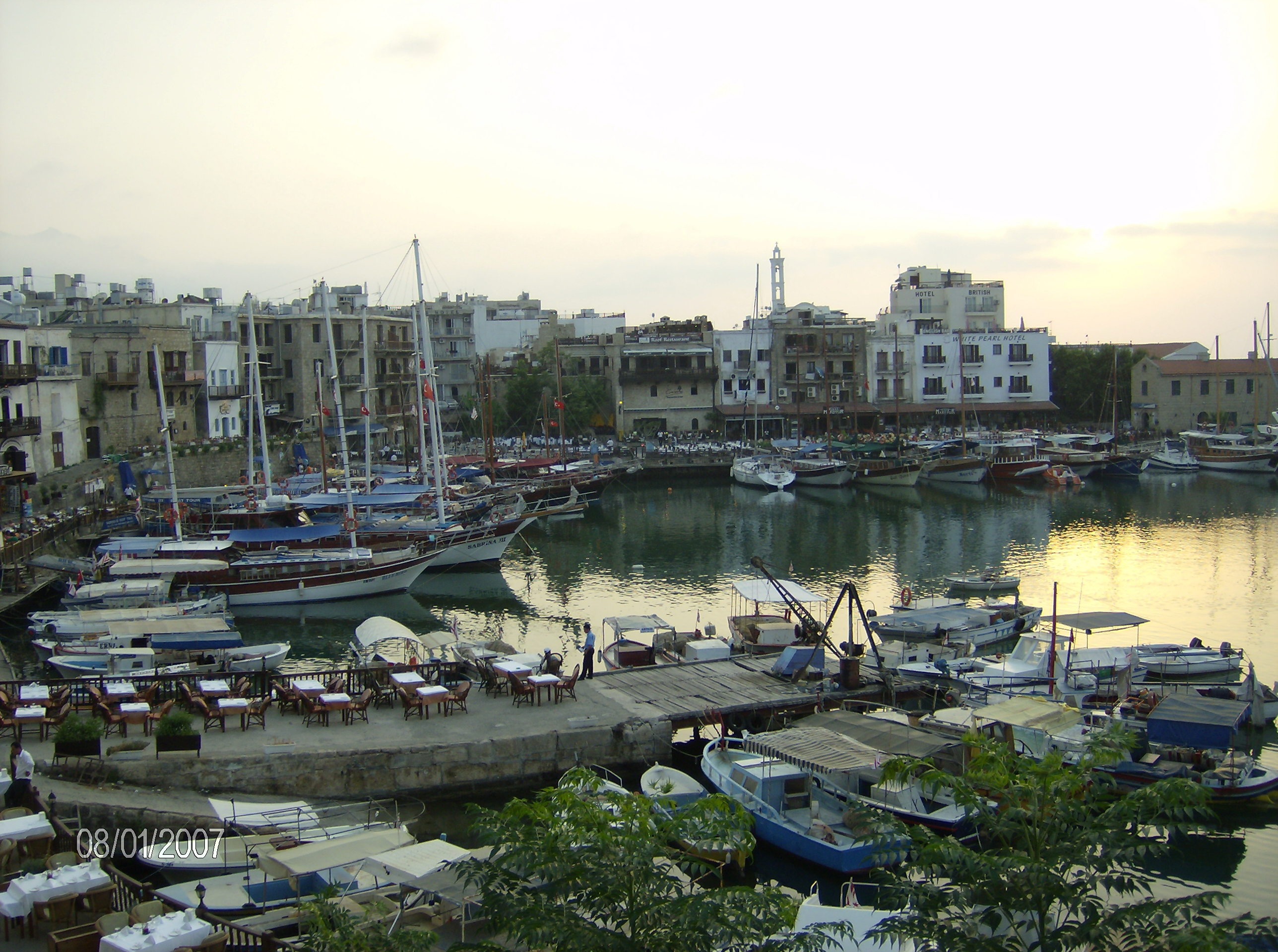 Kyrenia Harbour - The Turkish Republic of Northern Cyprus